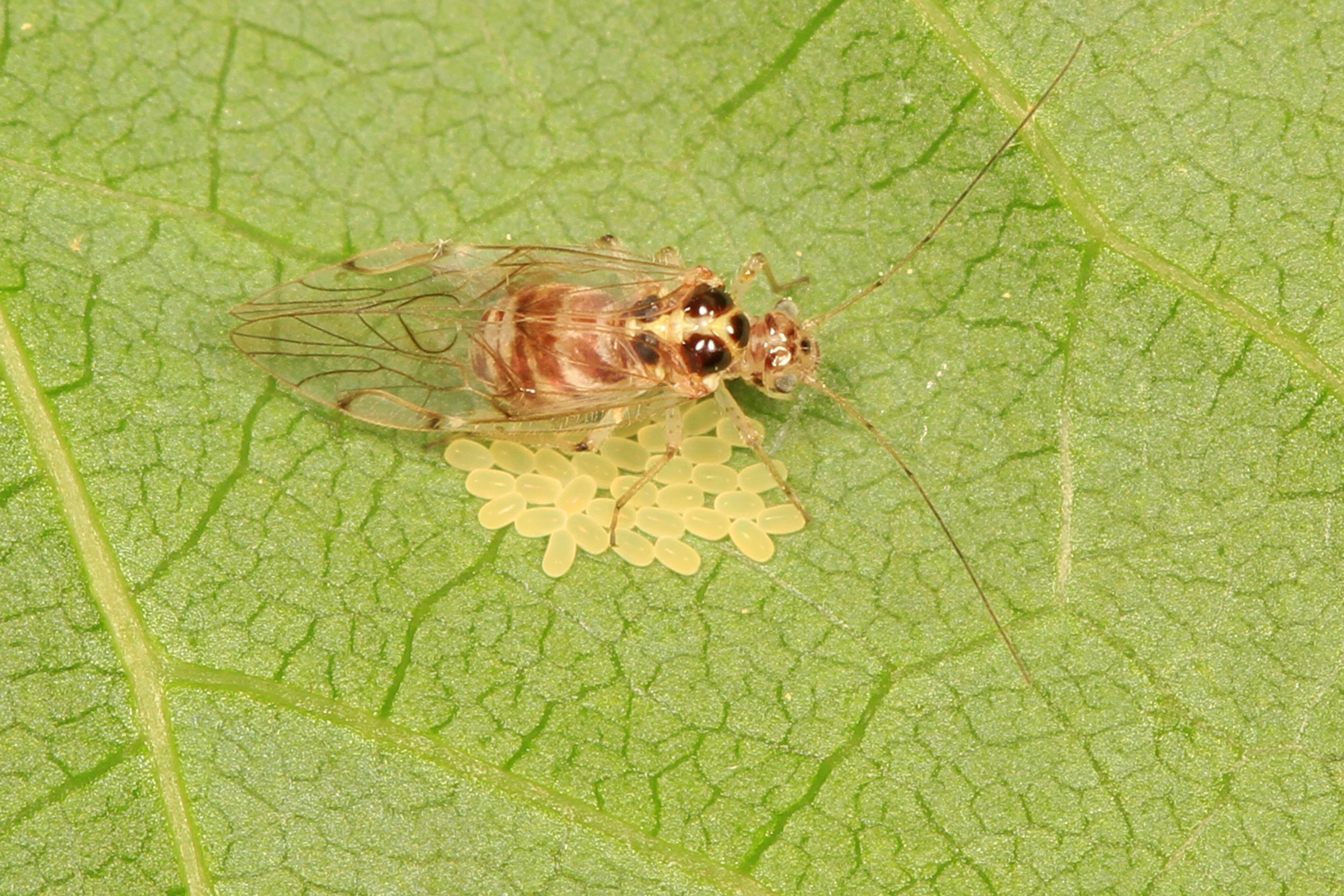 Barklouse and eggs - Teliapsocus conterminum, Natchez Trace, near Natchez, Mississippe. Barklouse mothers guard their eggs. This is the only time I've seen this behavior.